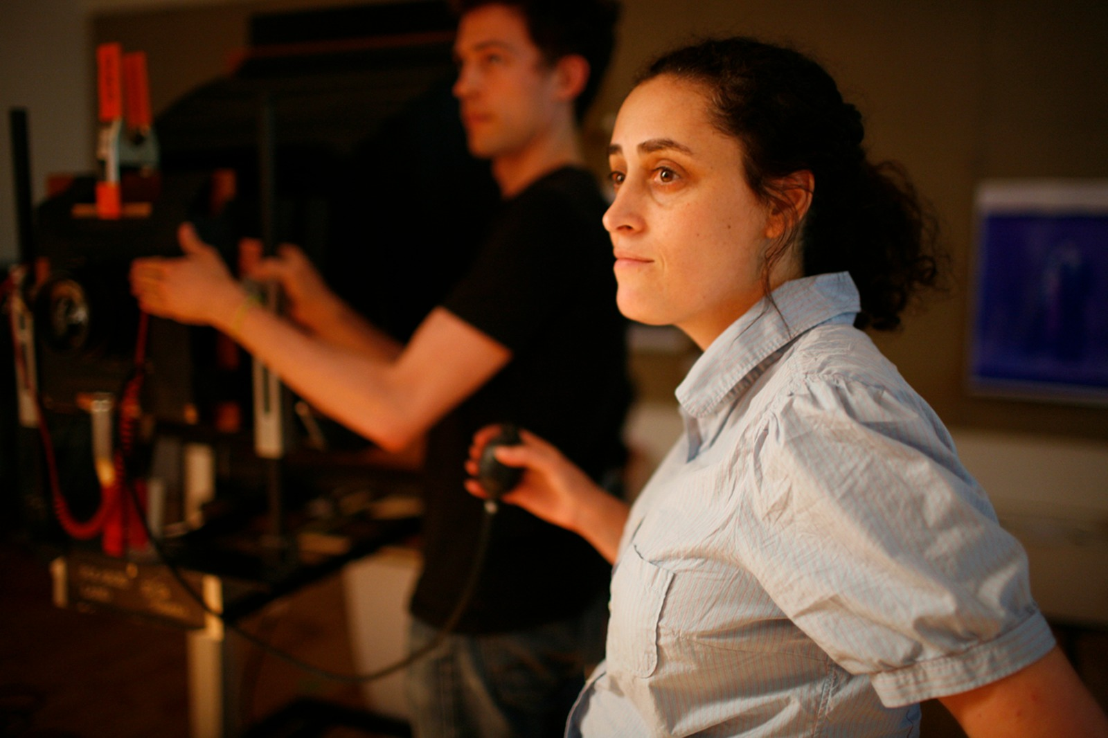 Gail Albert Halaban, in New York City circa 2007, operating a Polaroid 20x24 camera at a shoot.